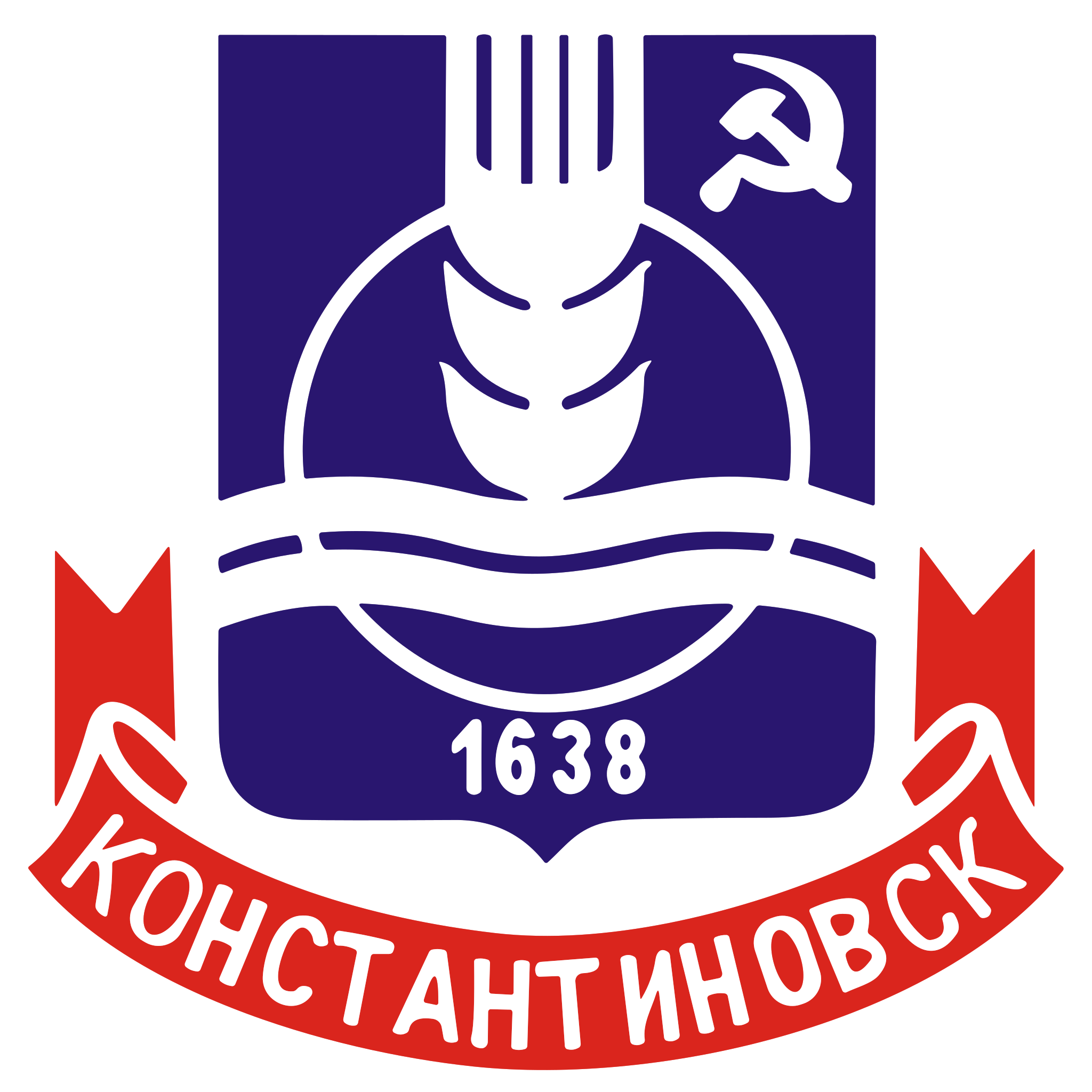 gerb konstantinovska